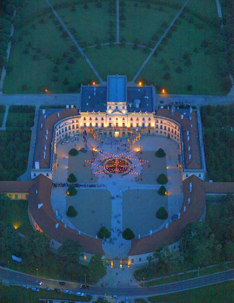 Fertőd, palace, Hungary, aerial photography